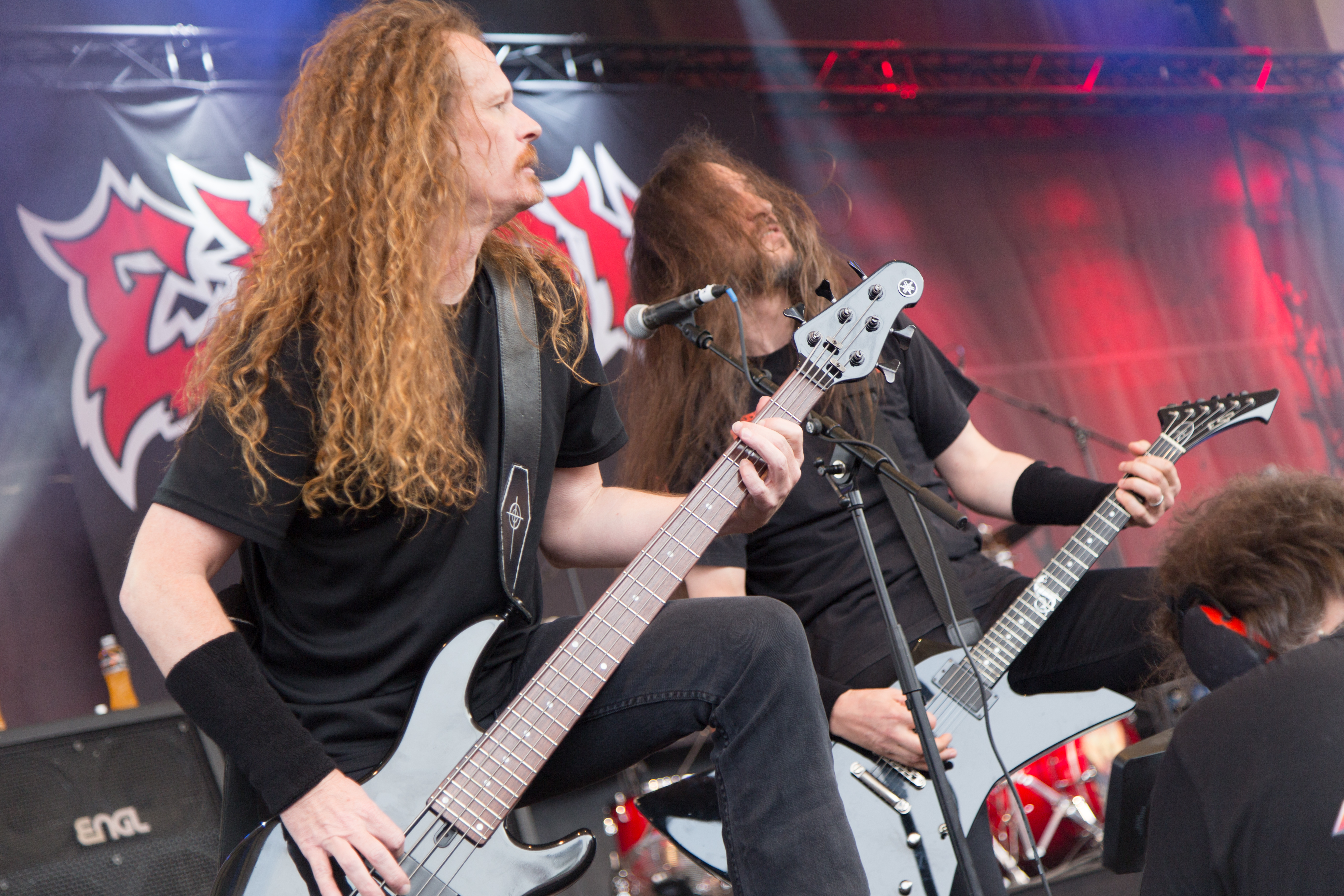 Exodus performing live at Rock Hard Festival 2017, Gelsenkirchen, Germany